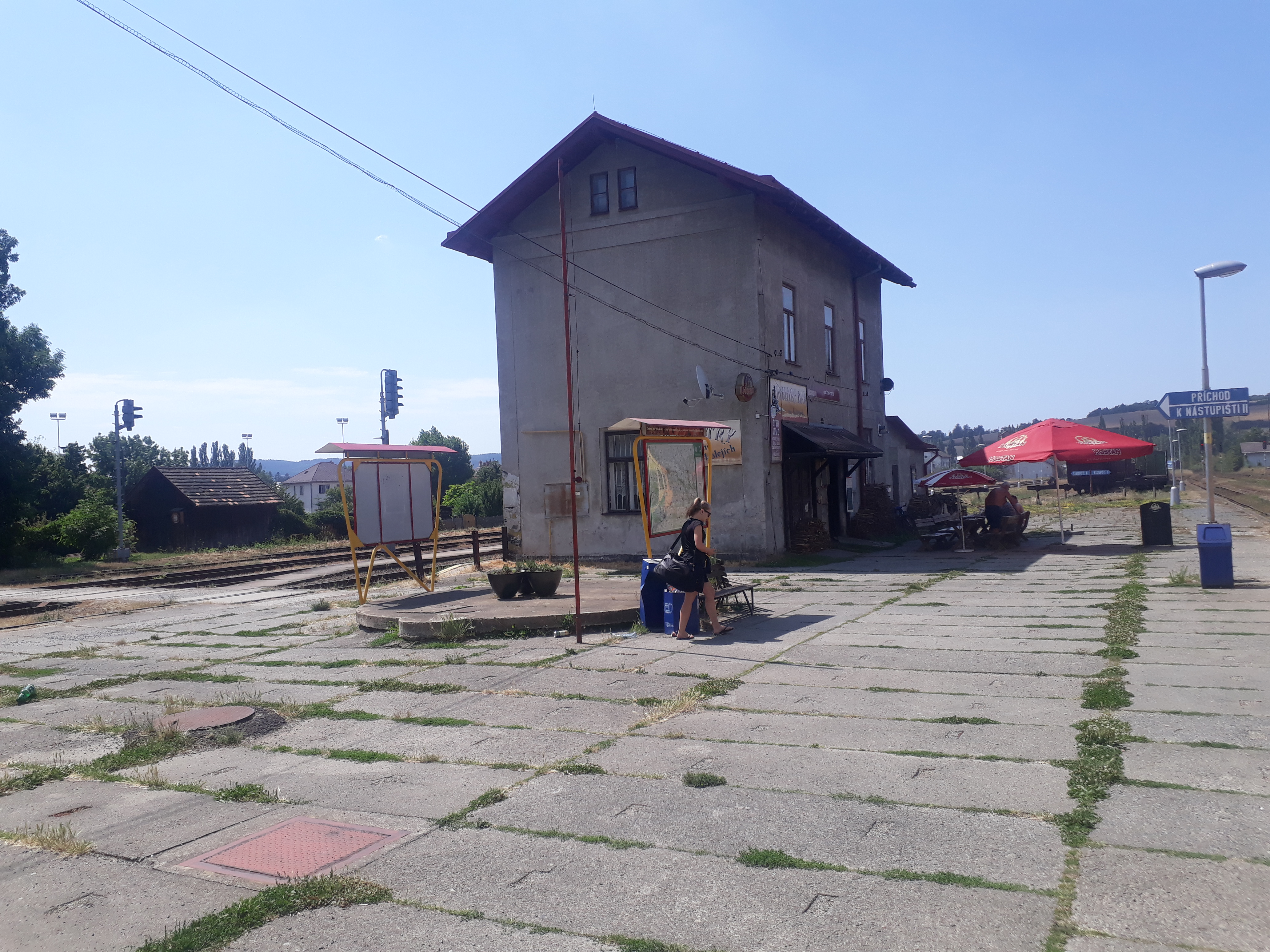 Olr railway station building in Okříšky